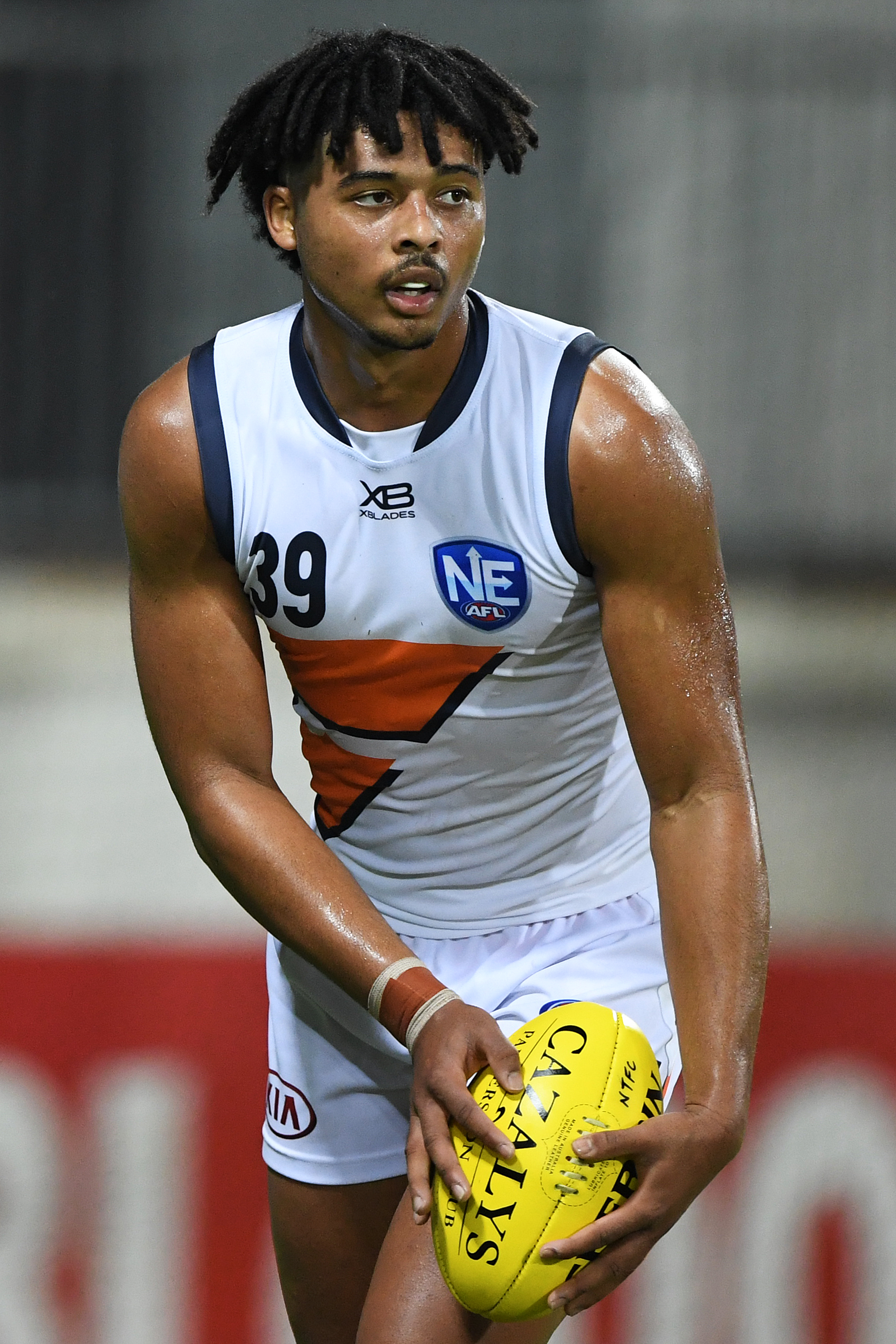 Connor Idun of Greater Western Sydney during the 2019 NEAFL round 15 match between NT Thunder and Greater Western Sydney at TIO Stadium on Saturday, 13 July 2019 in Darwin, Australia.